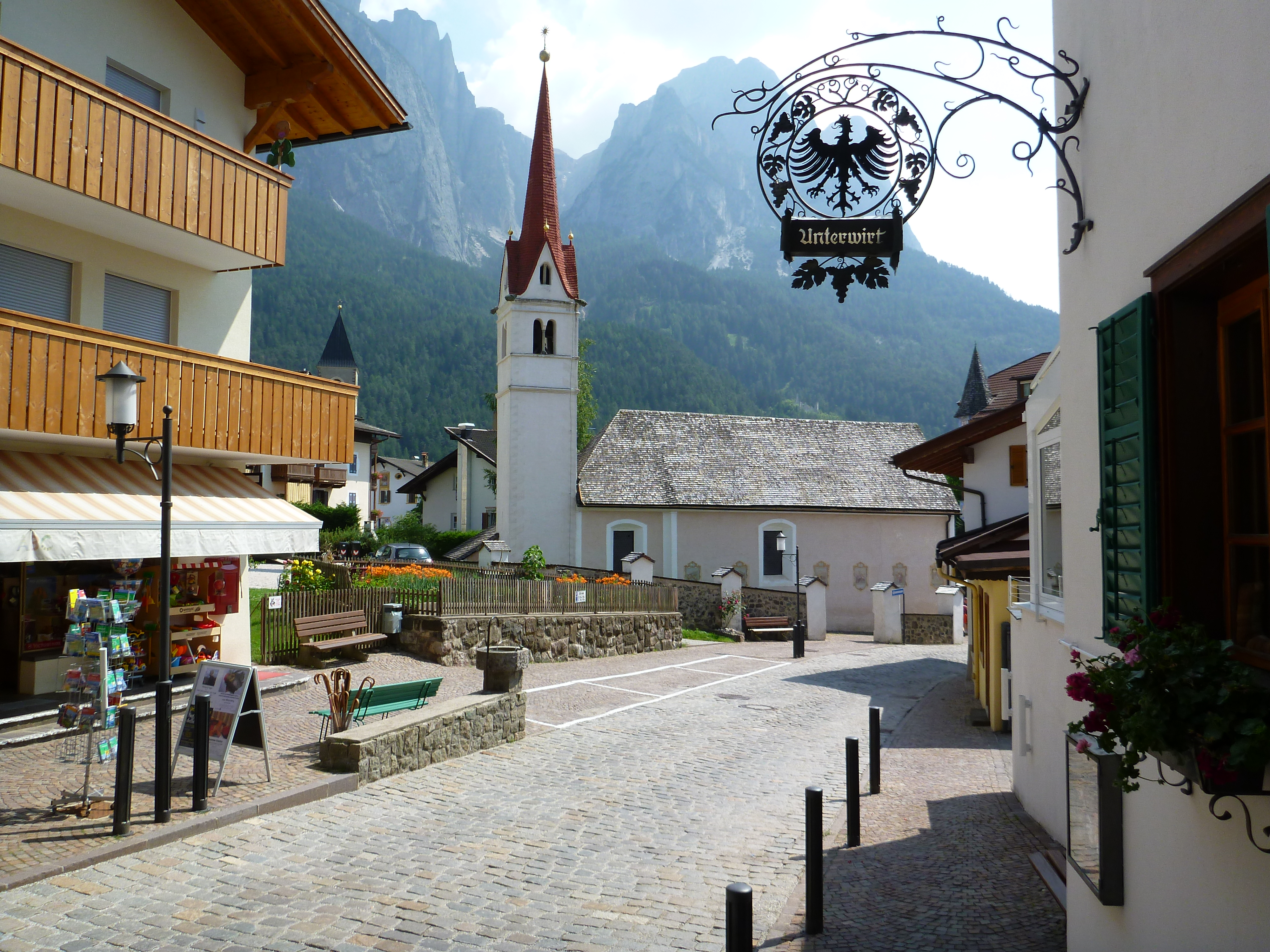 Historic centre of Seis am Schlern with Maria-Hilf-Kirche in the background